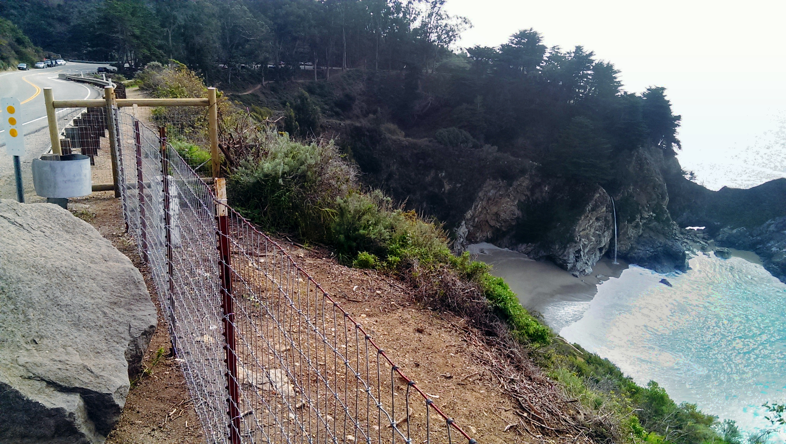 McWay Falls in Julia Pfeiffer Burns State Park, Big Sur, California, as viewed from the Pacific Coast Highway (Hwy 1).